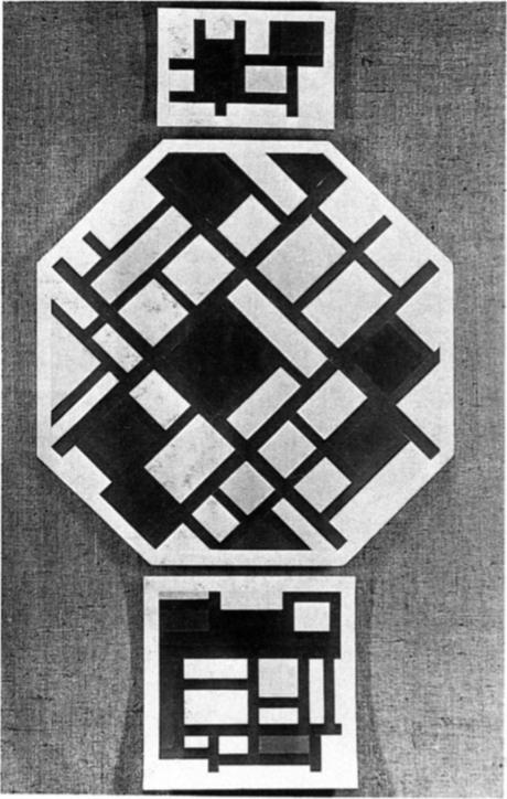 Colour composition roof.